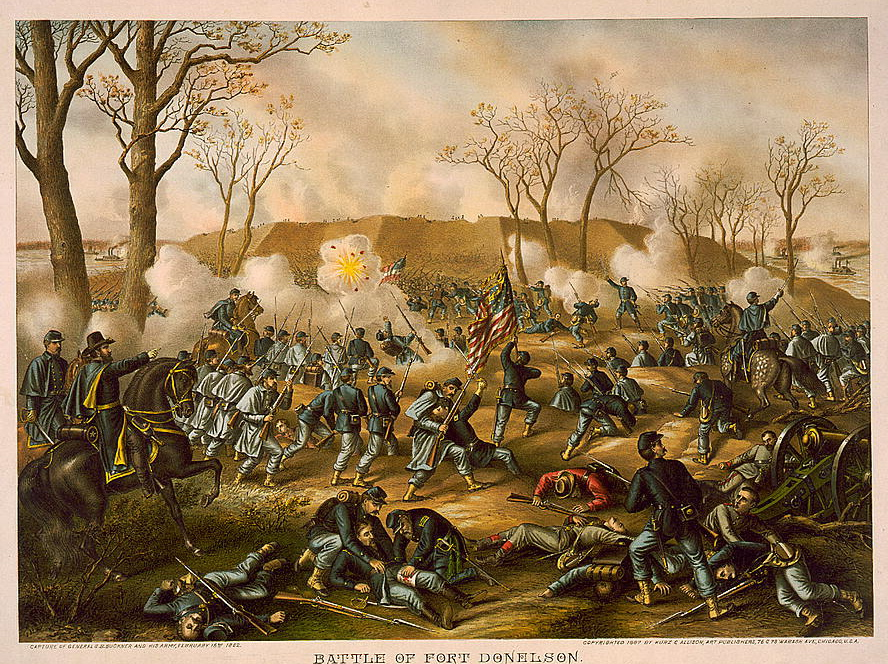 Battle of Fort Donelson, capture of Genl S.B. Buckner and his army, chromolithograph by Kurz & Allison